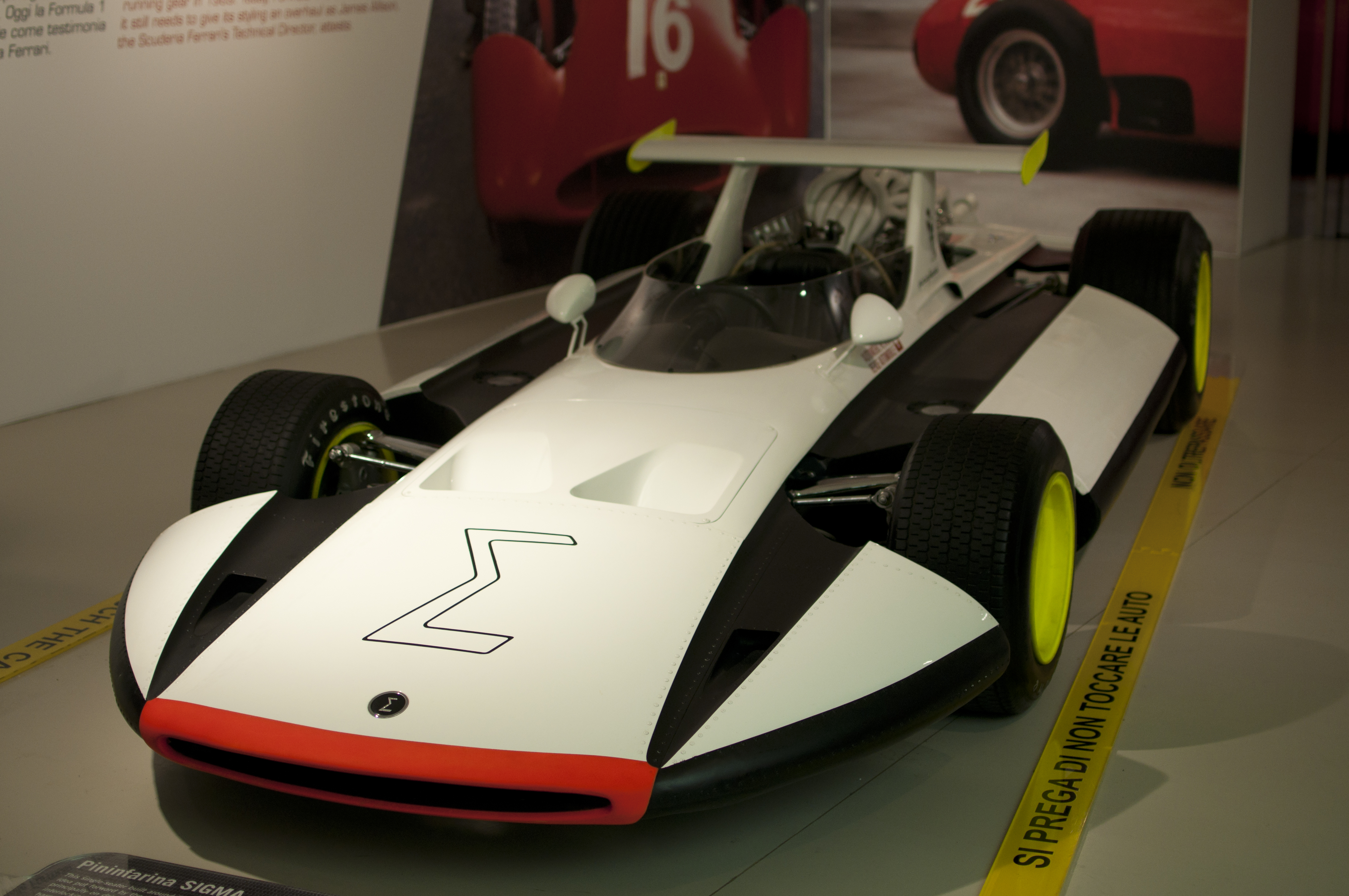 Maranello, Museo Ferrari, May 2015. Pininfarina Sigma Grand Prix (1969).